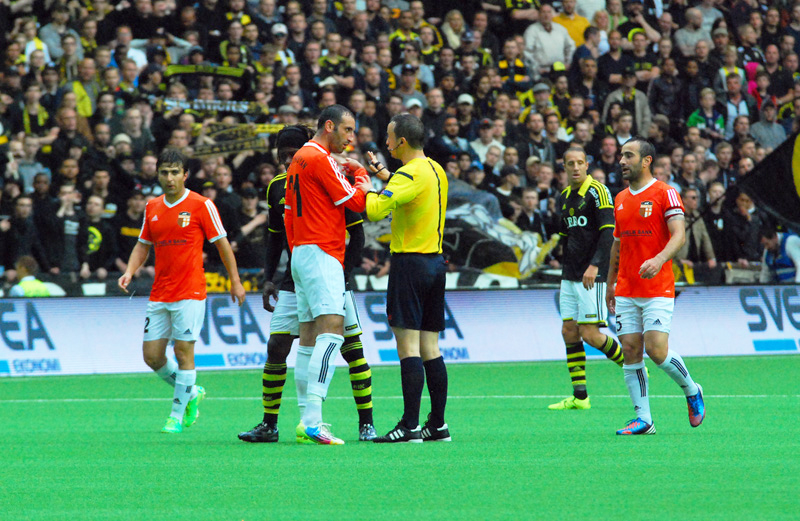 FC Shirak's Gevorg Hovhannisyan talks to the referee.